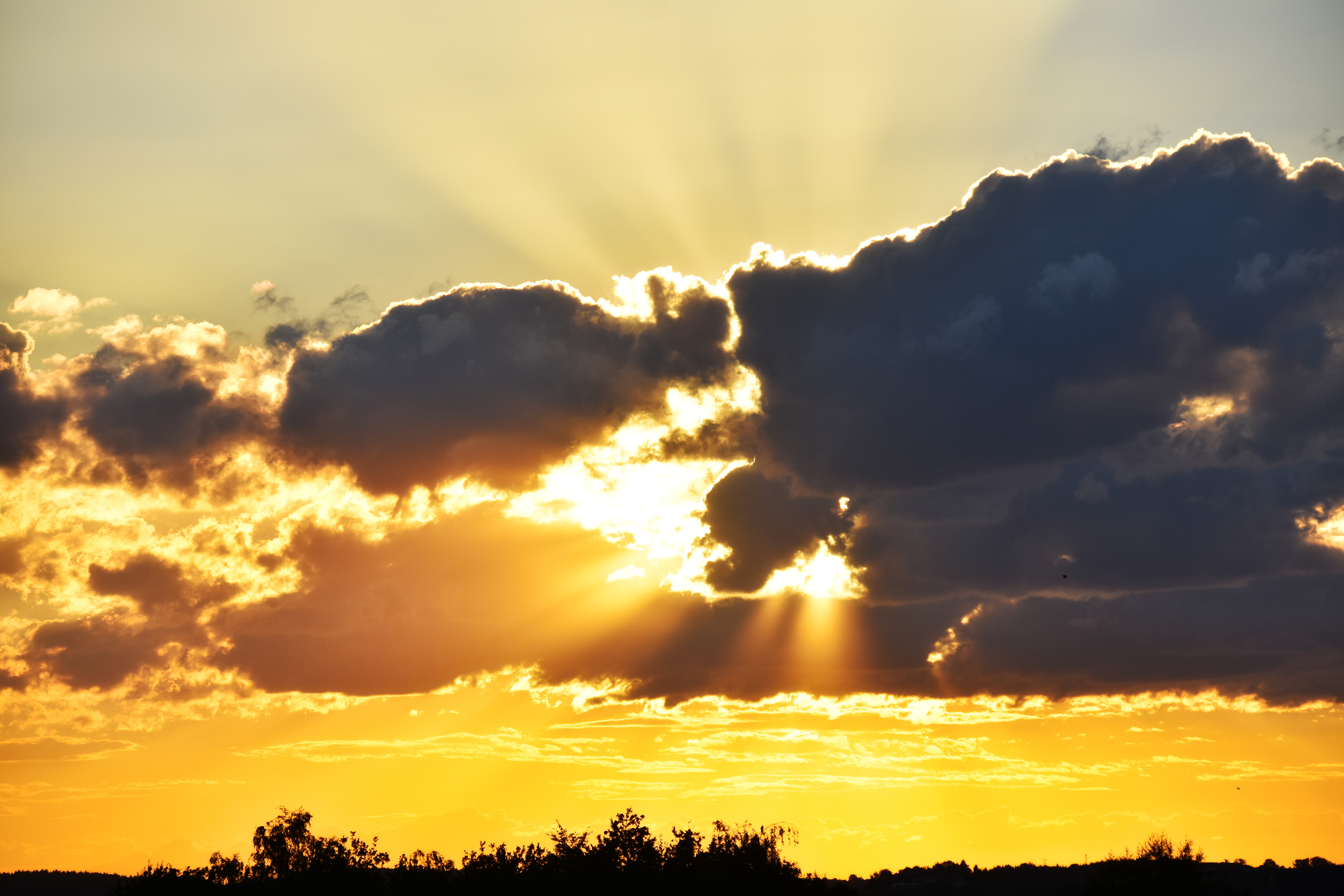 sun rays